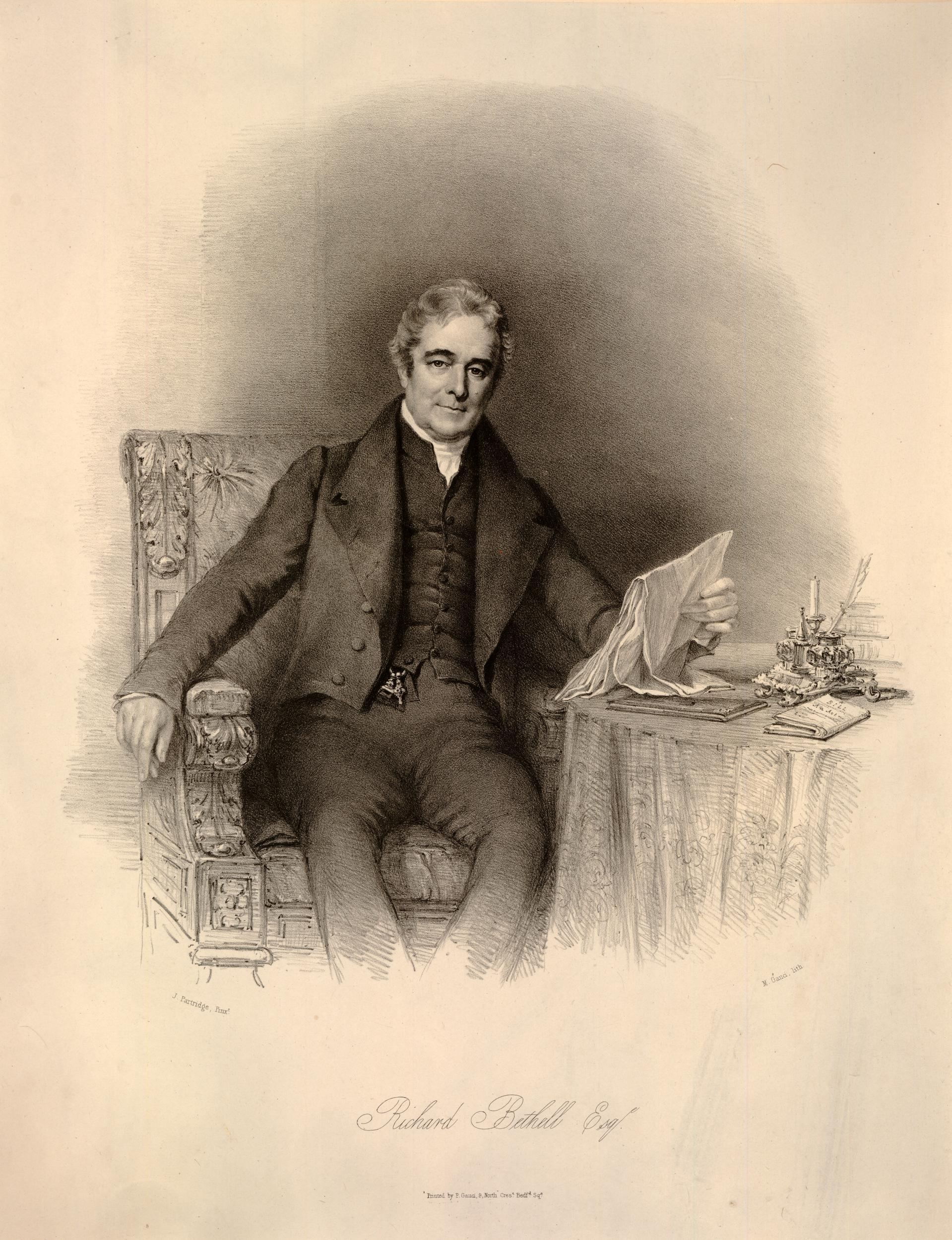 Portrait of Richard Bethell, nearly whole length, almost facing front, seated at table, wearing a jacket, waistcoat and cravat, holding a newspaper in his left hand; after a painting by Partridge Lithograph on chine collé